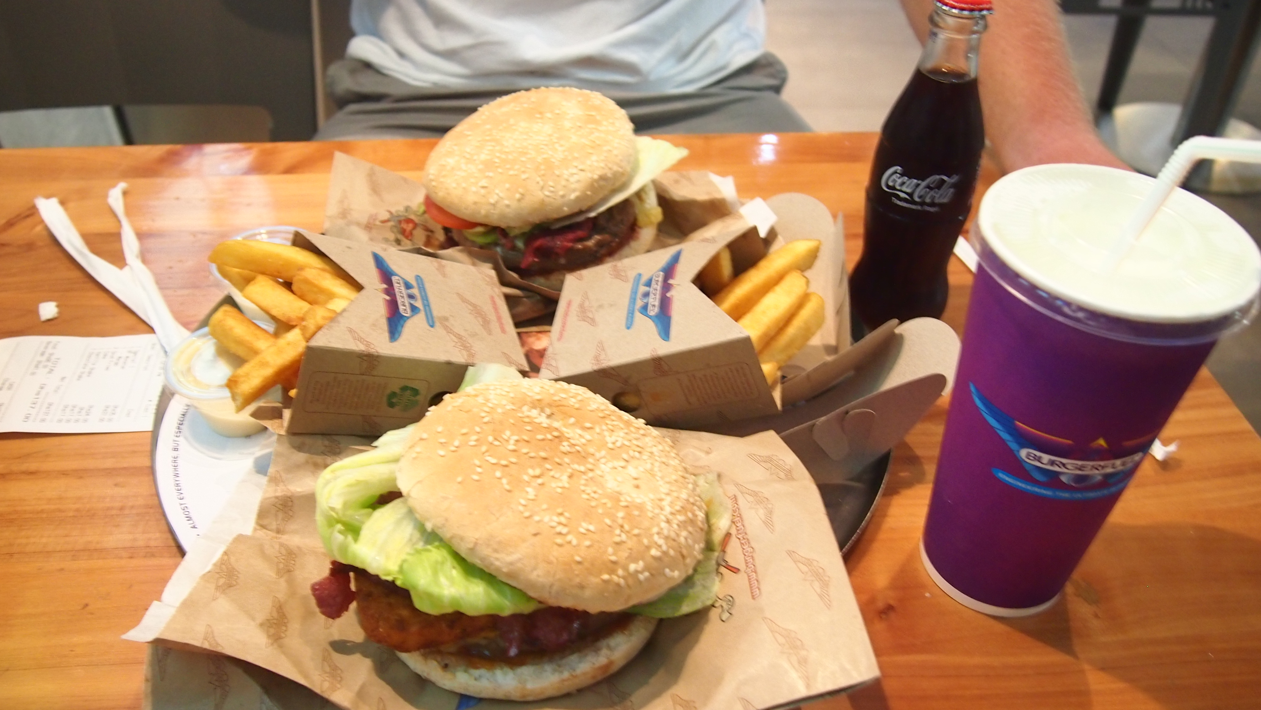 A typical fast food meal